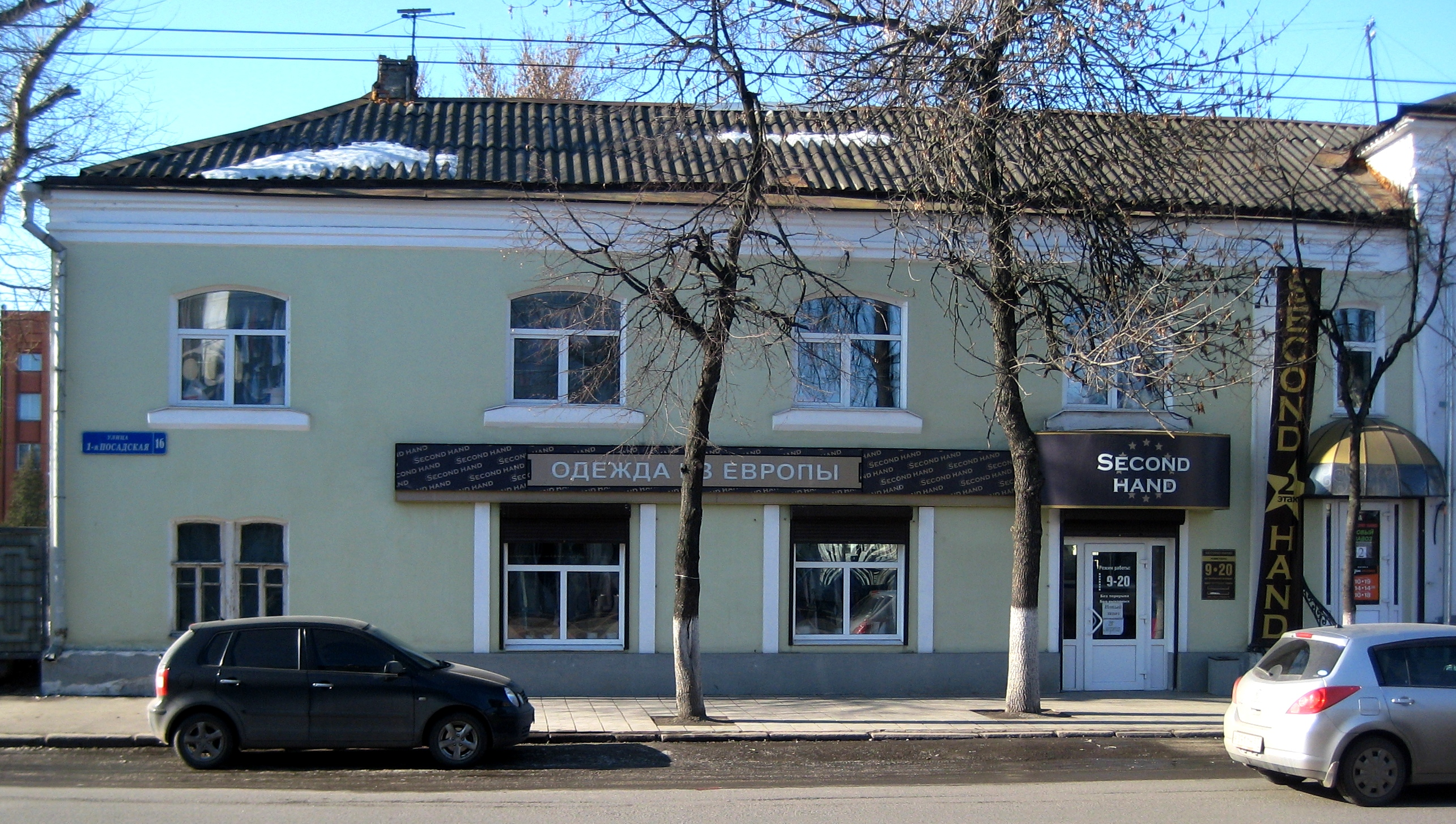 Posadskaya street, 16. Orel, Russia. Russian collaborator Mikhail Bukin lived in this house.